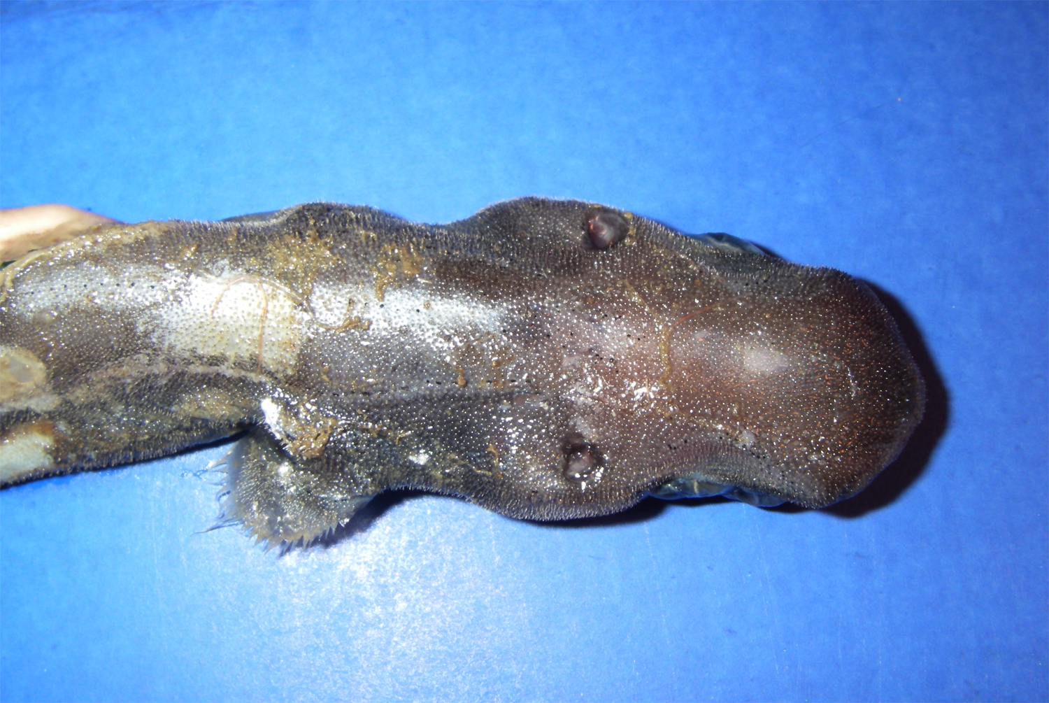 Etmopterus schultzi from the Gulf of Mexico